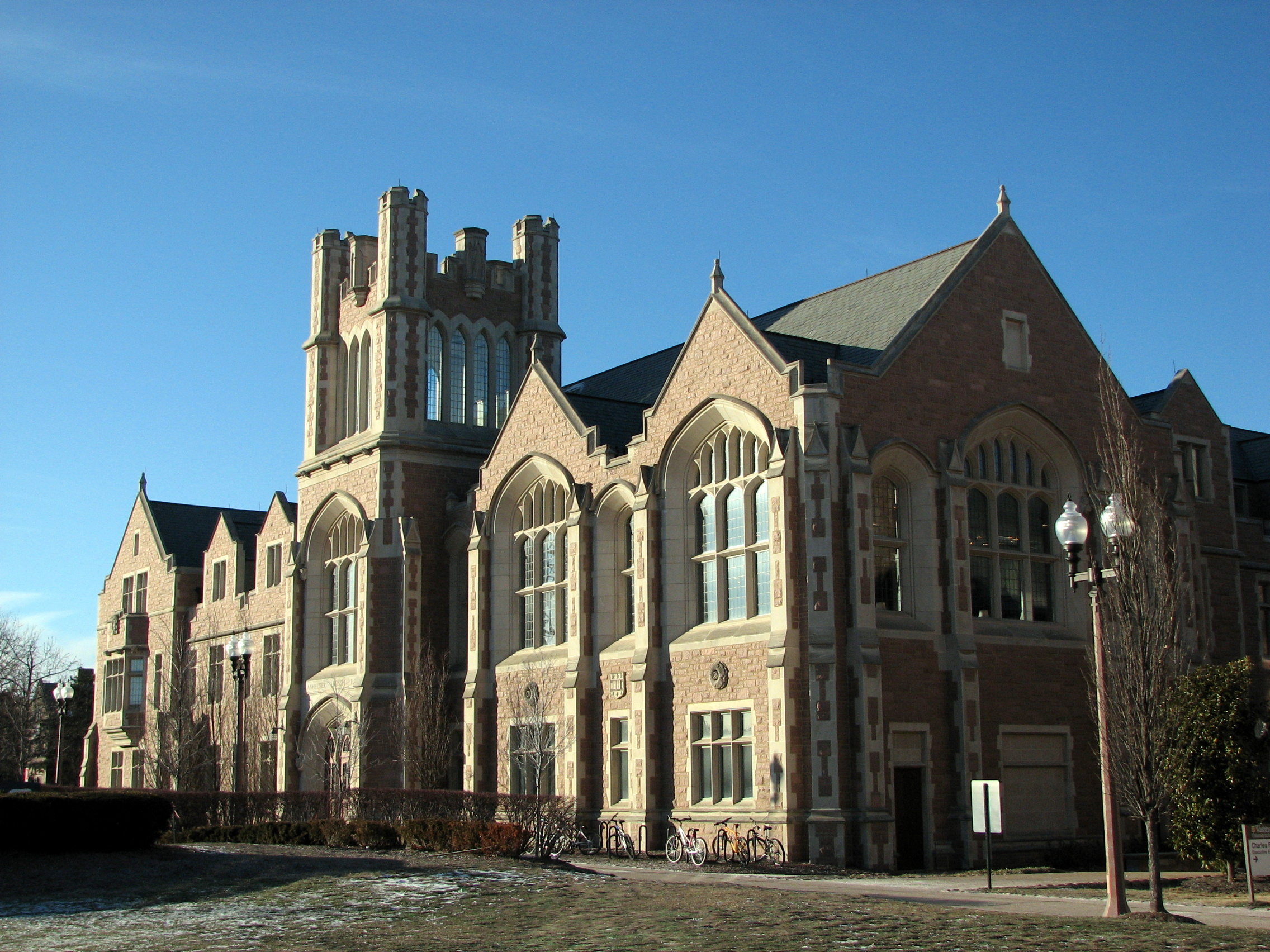 Anheuser-Bush Hall.